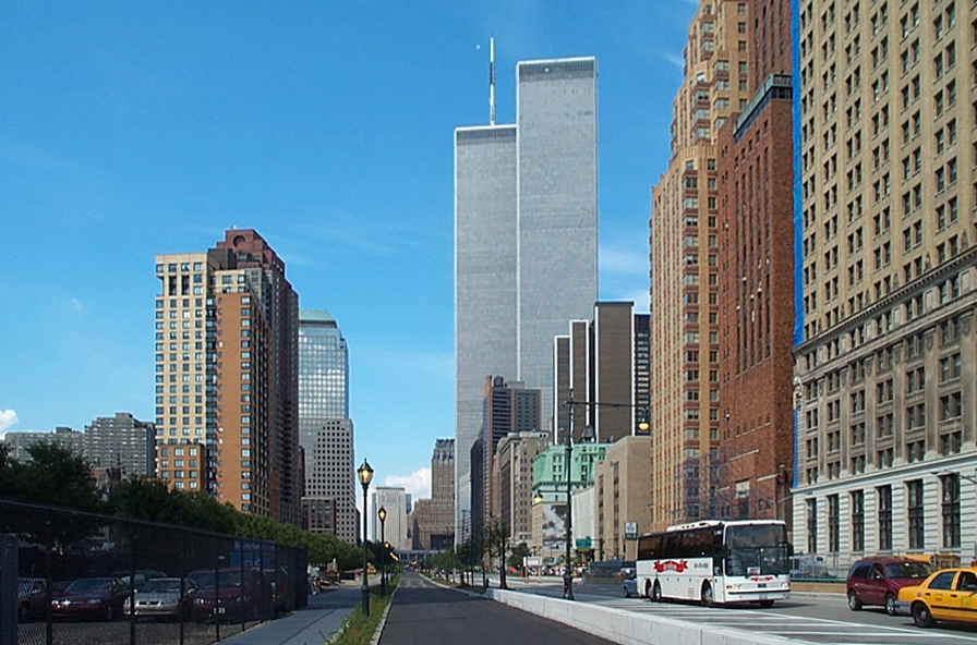 Version of :image:WTC-looking_north.jpg corrected for perspective distortion. The Twin Towers of the World Trade Center in Manhattan, New York City, New York, in July 2001, and its surrounding buildings.